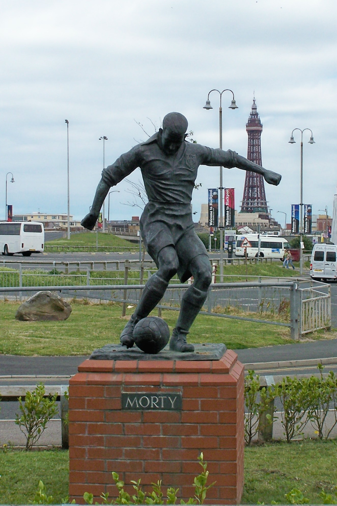 Twin Towers, Bloomfield Road, Blackpool One of Blackpool's towering greats ... Stan Mortensen, scorer of a hat-trick in the 1953 Matthews F.A. Cup Final ... and loyal servant to the 'Pool, is fondly remembered with a statue outside the Bloomfield Road ground. The second tower is, of course, Blackpool Tower.